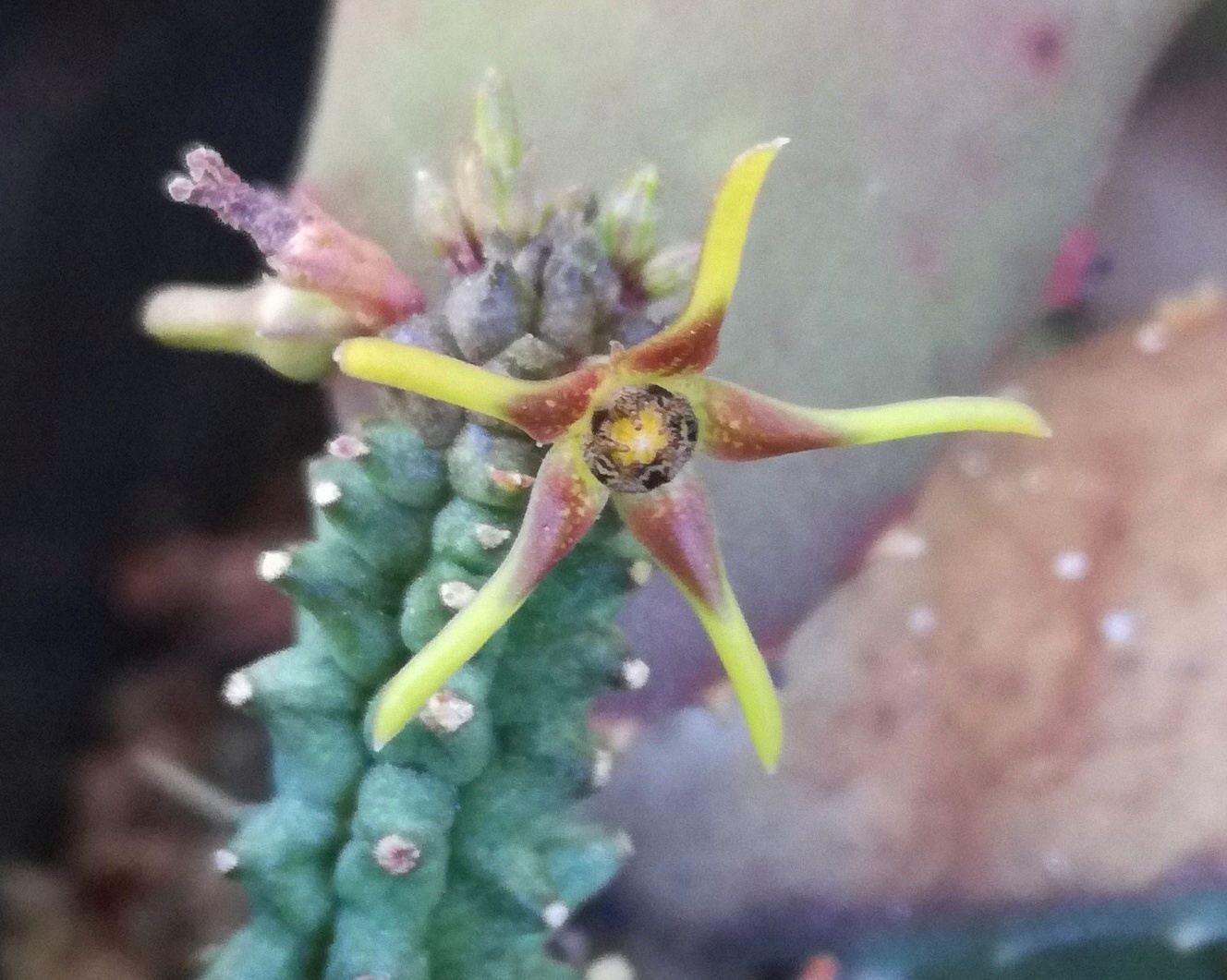 Echidnopsis montana - Cape Town